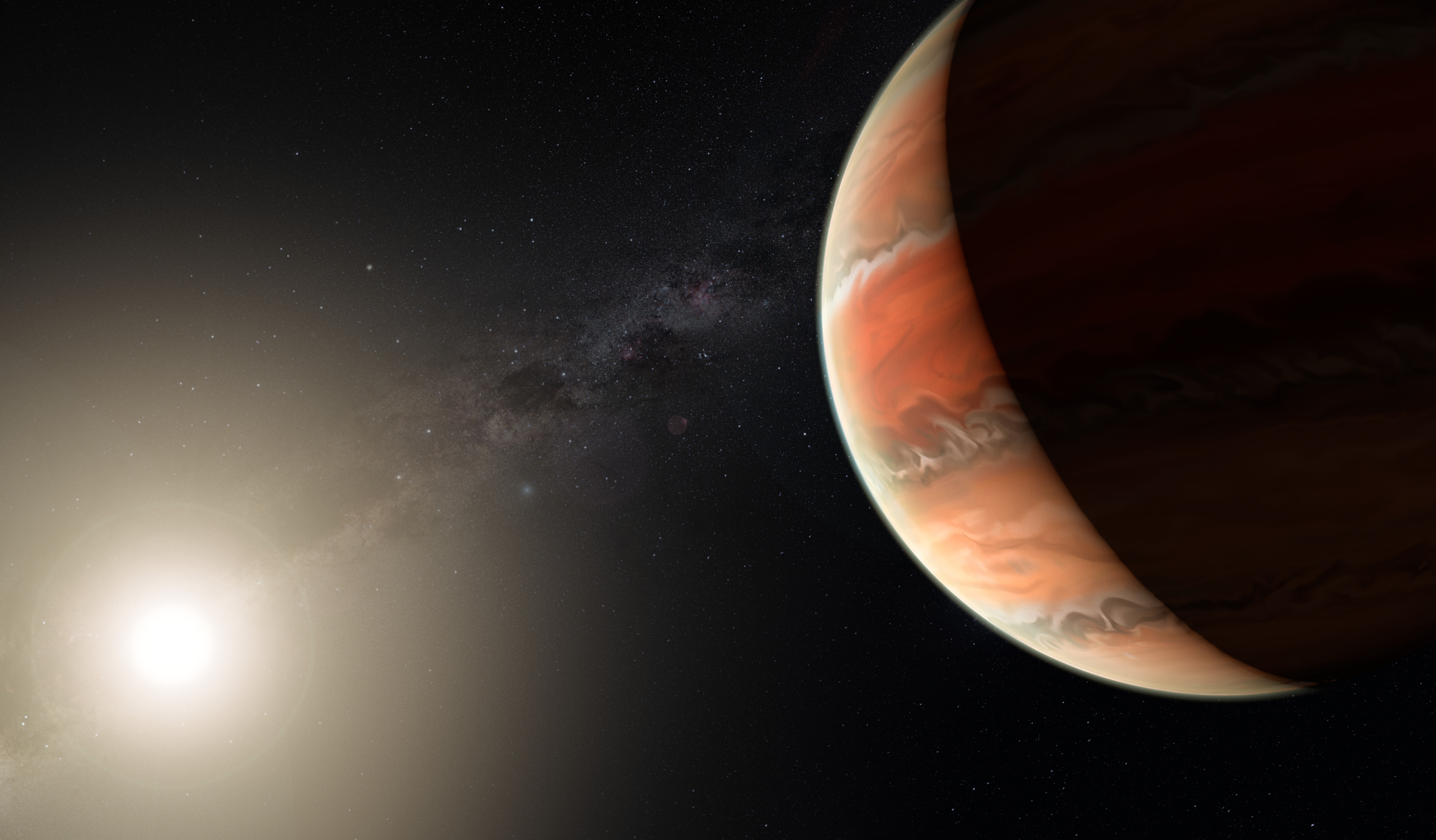 An artist's impression showing the exoplanet WASP-19b, in which atmosphere astronomers detected titanium oxide for the first time. In large enough quantities, titanium oxide can prevent heat from entering or escaping an atmosphere, leading to a thermal inversion — the temperature is higher in the upper atmosphere and lower further down, the opposite of the normal situation.